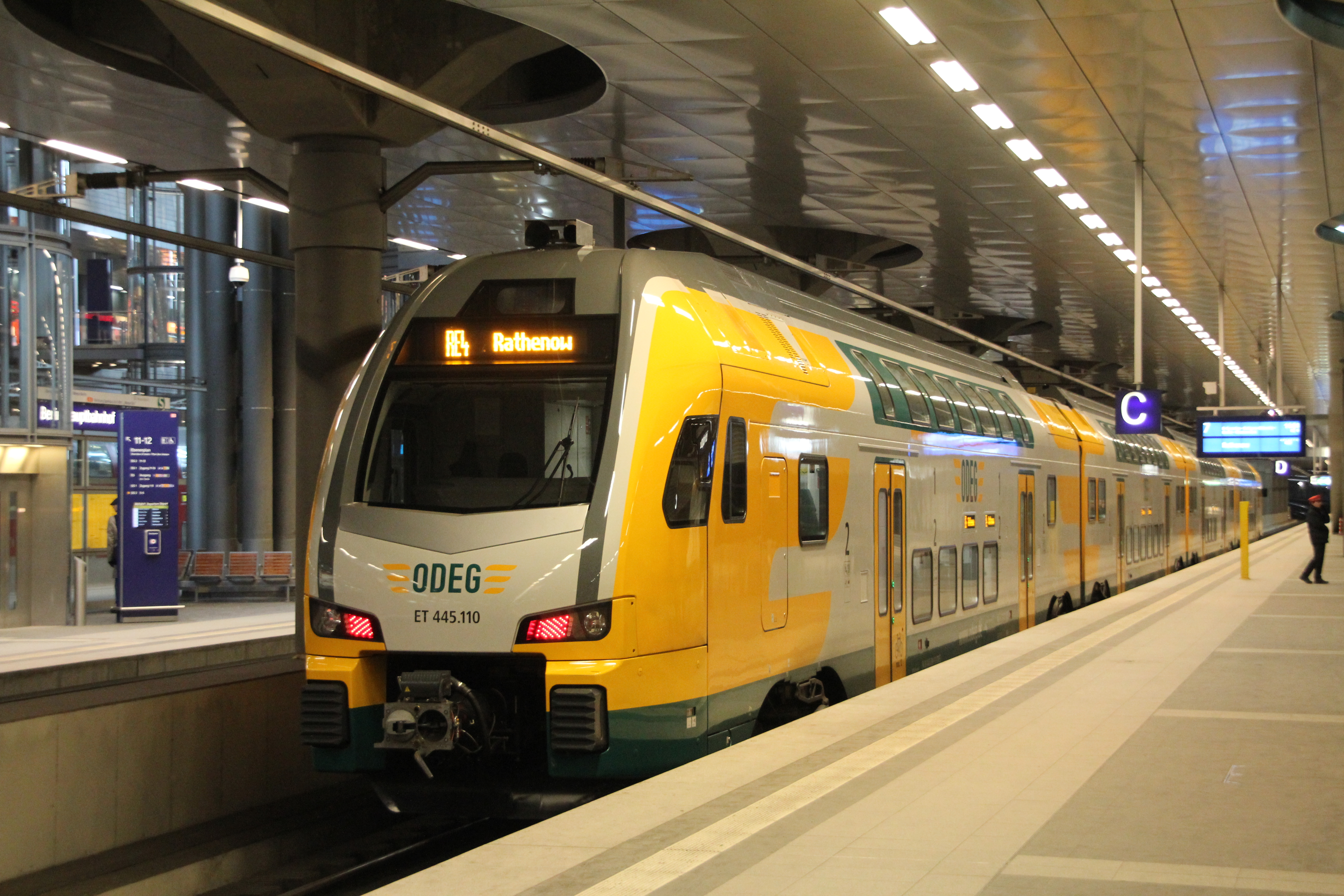 The Ostdeutsche Eisenbahn GmbH train (Stadler KISS) at Berlin Main Station.